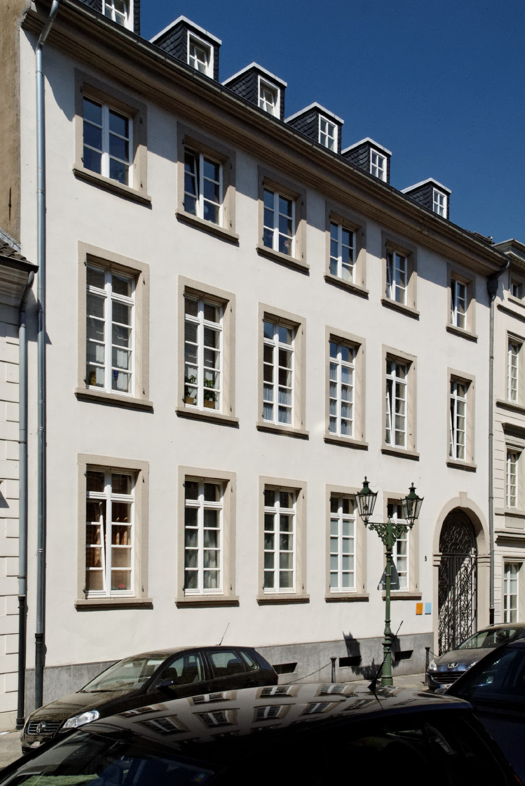 House Citadellstraße 5 in Düsseldorf-Carlstadt, Germany